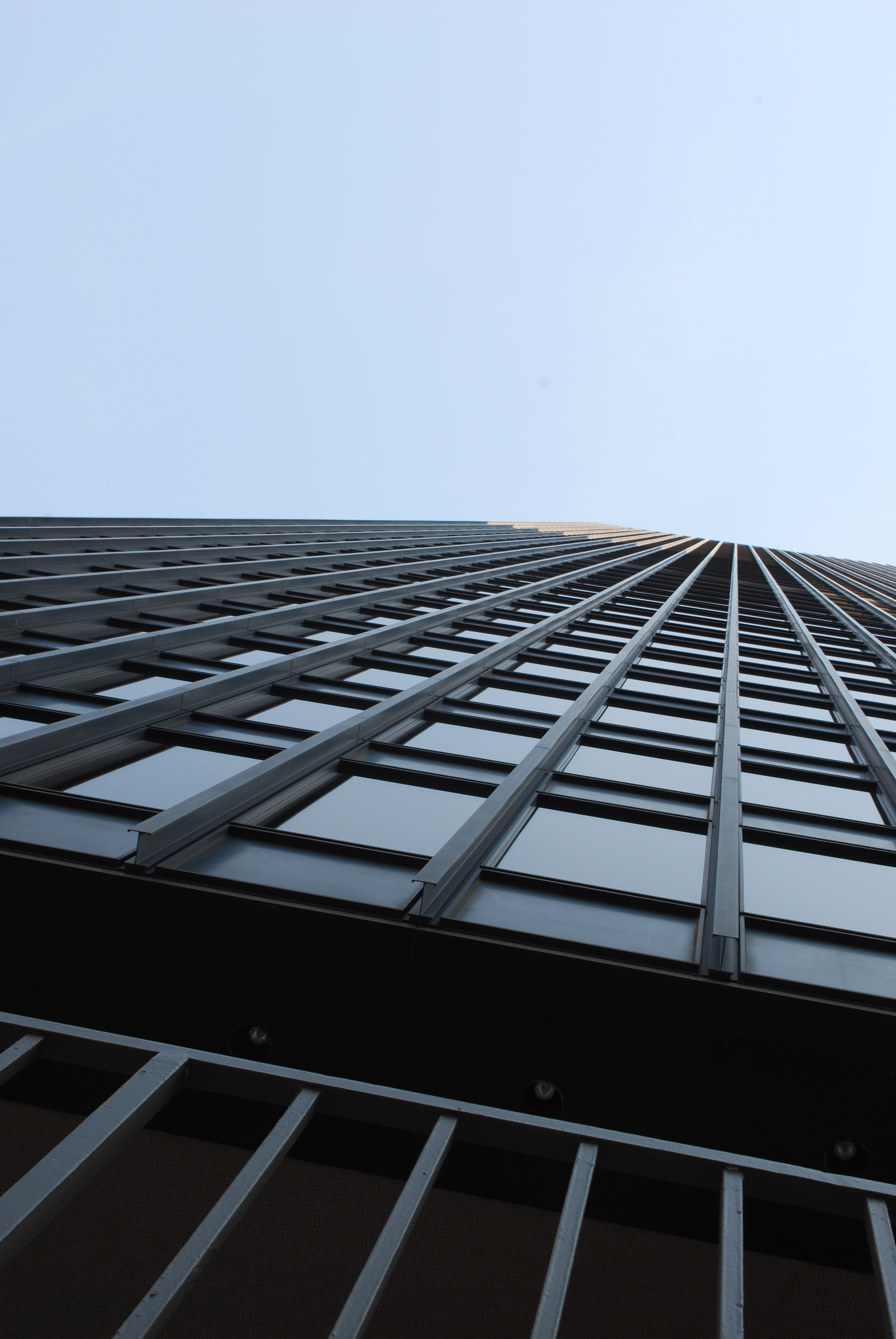 A view of the mullions on 330 North Wabash in Chicago